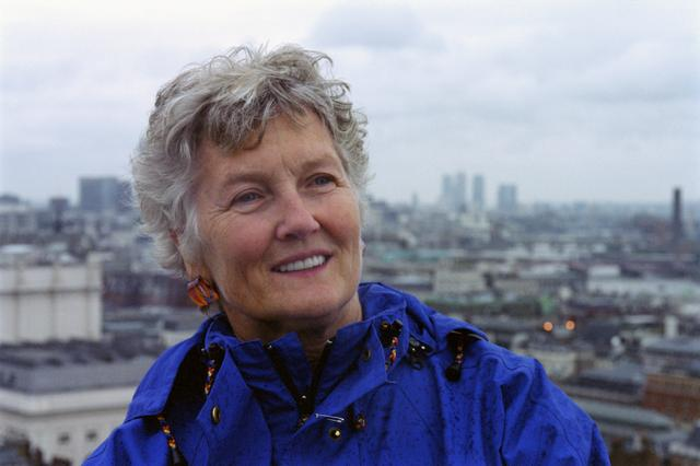 Peggy Seeger in 2011 at the University of Salford, where she was awarded an honorary doctorate.